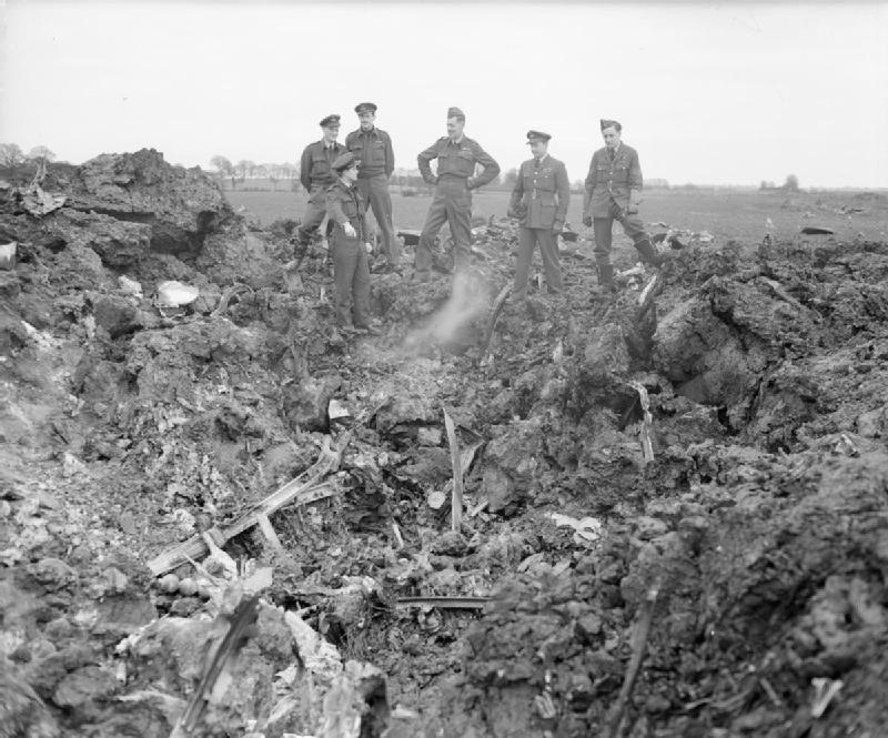 Royal Air Force- Air Defence of Great Britain (adgb), 1943-1944. Air Marshal Sir Roderick Hill, Air Officer Commanding ADGB, is shown the wreckage of one of three enemy aircraft shot down by aircrews of No. 488 Squadron RAF, flying from Bradwell Bay, Essex, on the night of 21 March 1944. In the photograph are, (left to right) Flight Lieutenant C P Reed (navigator), Squadron Leader E N Bunting (pilot, pointing toward the wreckage), AM Sir Roderick Hill, Wing Commander R C Haine (Commanding Officer of No. 488 Squadron) and Flight-Sergeant J L Wood (navigator). This particular aircraft, a Junkers Ju 188E-1 of 2/KG6, came down at Butler's Farm, Shopland, Essex, and was Bunting and Reed's second 'kill' of the evening.